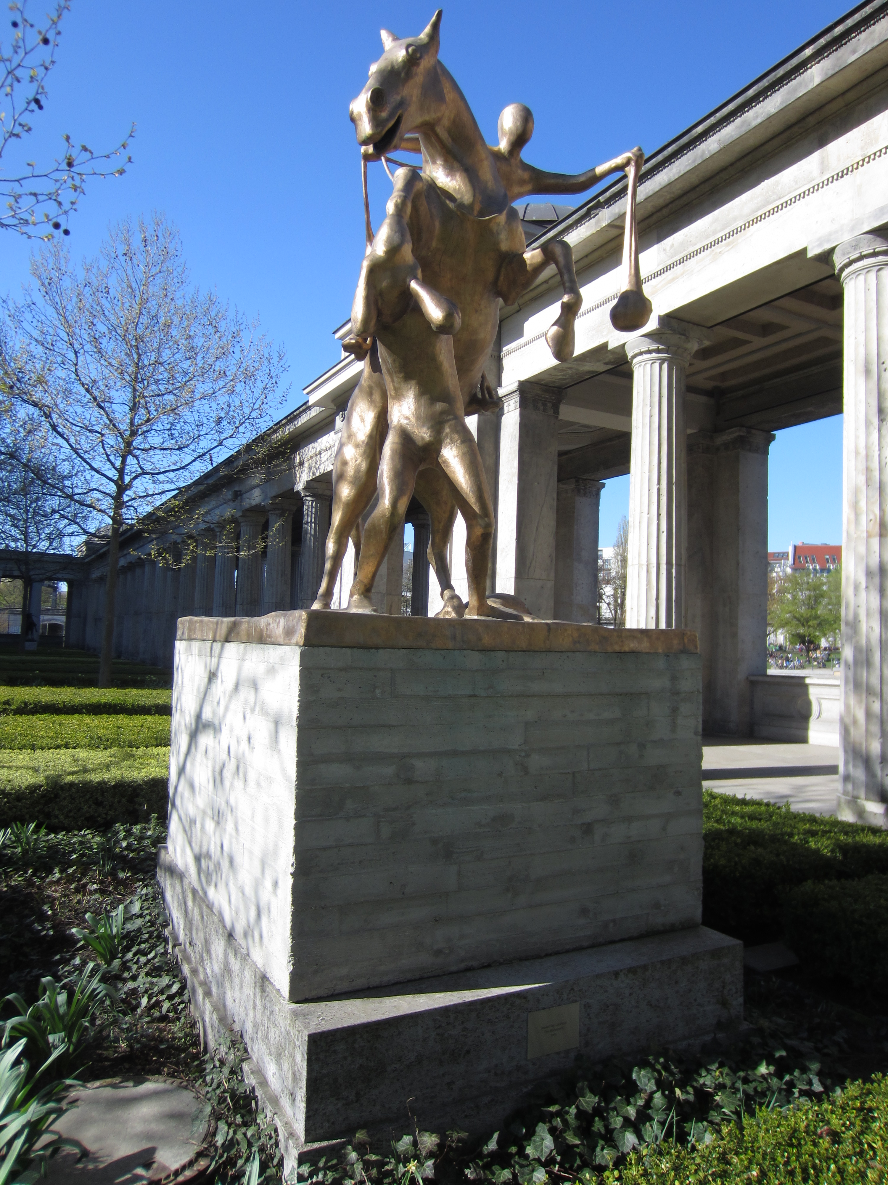 The Monument, Berlin, Germany (April 2016)